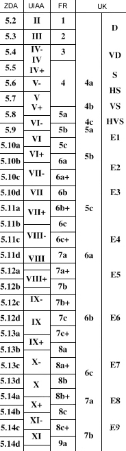 Compare table of climbing grades